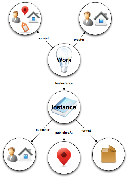 A diagram illustrating the basics of the Library of Congress's BIBFRAME model.